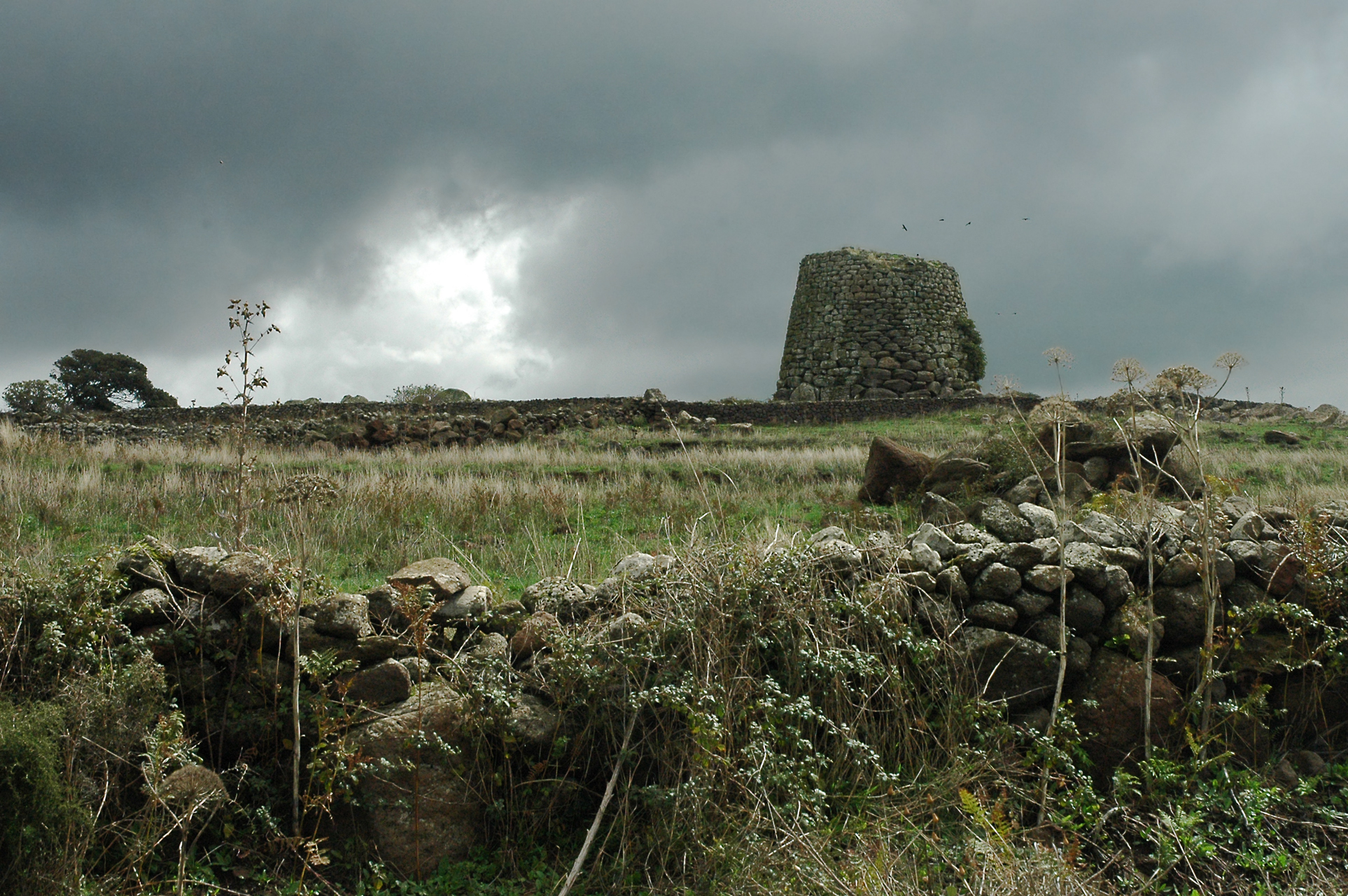 Nuraghic Tower under Dramatic Sky